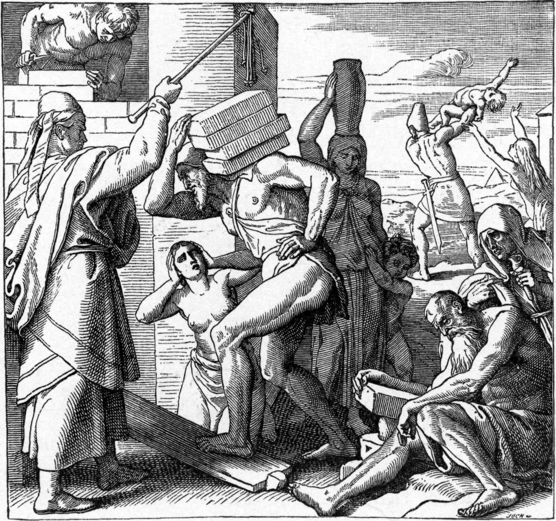 The Egyptians Afflicted the Israelites. Caption: "This poor man is carrying a heavy load of bricks on his shoulder. The man with the whip is going to strike him because he does not go faster. A little way off another man is throwing a little child into the river, He wants to drown the little child. Its mother is trying to save it, but she cannot. Why are the men so cruel to these people? It is because King Pharaoh tells them to be cruel. The people they are so cruel to are called Israelites. There are a great many Israelites in King Pharaoh's land; some of them are men, and some of them are women, and some of them are little children. King Pharaoh makes them work very hard. They have to dig clay out of the ground and to make bricks of it, and to build houses. They are tired and sick with working, but the king does not pity them. He makes them work harder than ever." Illustration from the 1897 Bible Pictures and What They Teach Us: Containing 400 Illustrations from the Old and New Testaments: With brief descriptions by Charles Foster